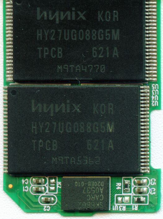 Inside of an older sample of a SD-flash-card made by extreMEmory. Special is the existence of two memory chips which can double the write ratio when accessed parallel.